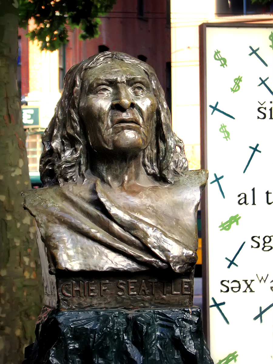 Bust of Chief Seattle — a leader of the Suquamish and Duwamish Native American tribes of Washington State. The city of Seattle was named after him. Created by artist James Wehn in 1909. Located in Pioneer Square Park, Pioneer Square, Seattle, Washington, USA.